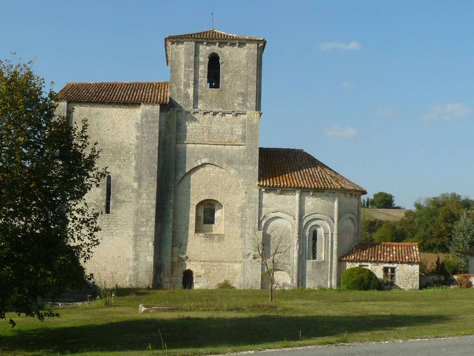 romanesque church of Péreuil, Charente, SW France